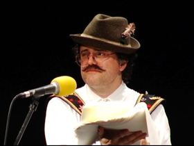 Andrew McGibbon performing at the Cochrane Theatre, London, 26 July 2007